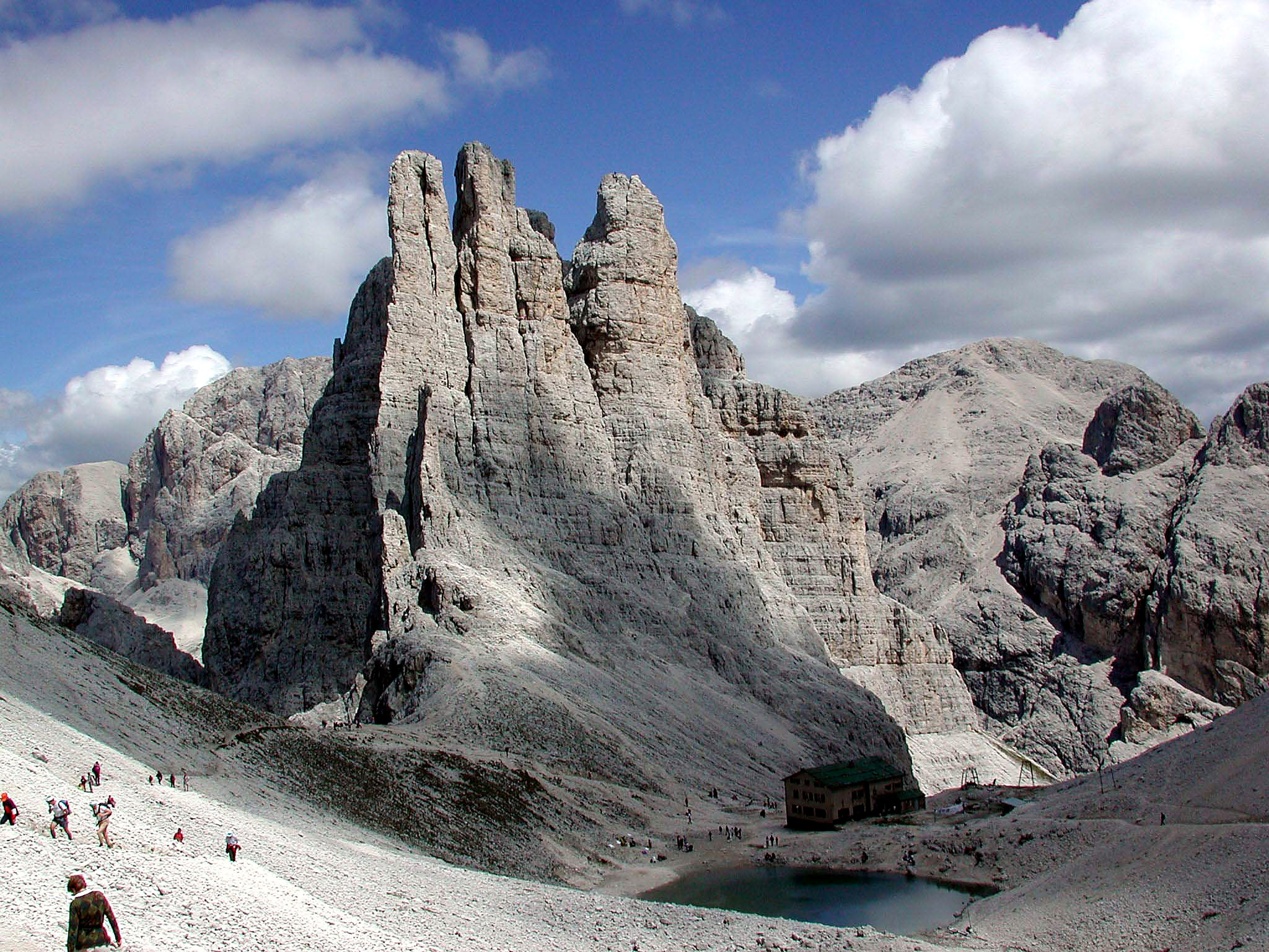 The Torri del Vaiolet (East Trentino - Italy) seen descending from the Rifugio Santner. In the bottom at the right the Rifugio Alberto